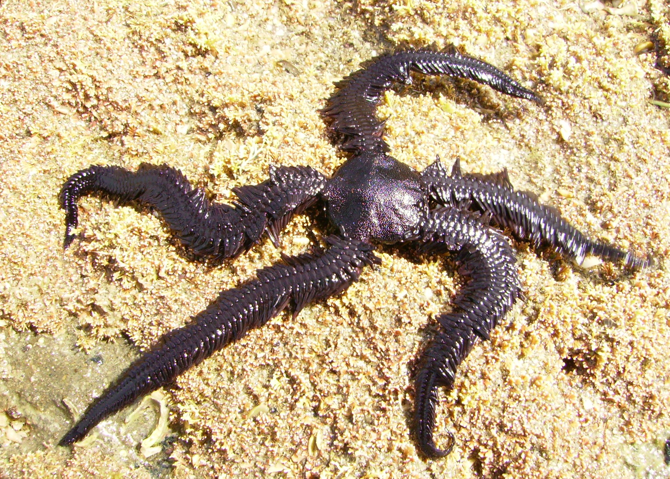 Ophiopteris antipodum, from Whangaparaoa, near Auckland, New Zealand. This work has been released into the public domain by its author, Graham Bould. This applies worldwide.In some countries this may not be legally possible; if so:Graham Bould grants anyone the right to use this work for any purpose, without any conditions, unless such conditions are required by law. .